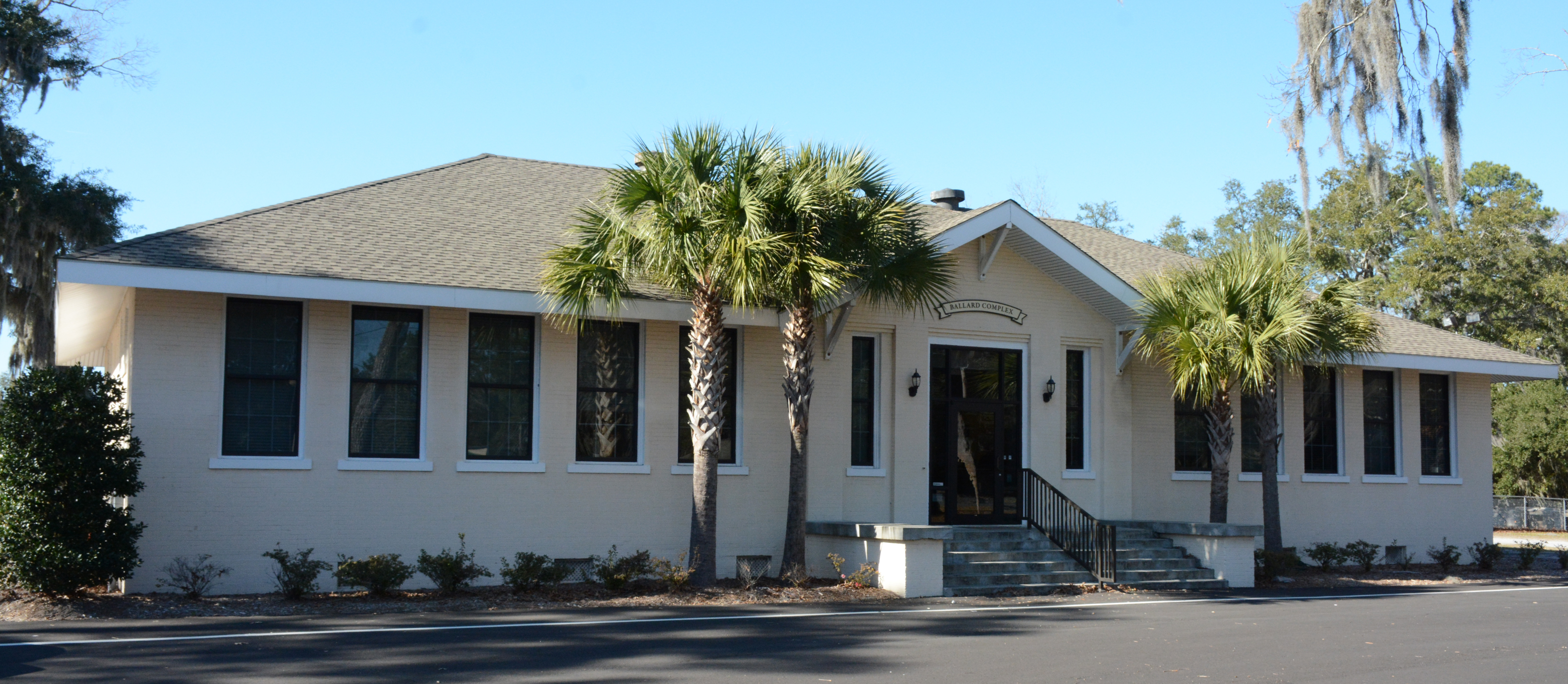 The building that was the Ballard School, now for meetings